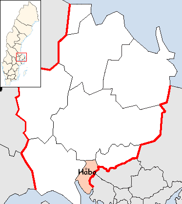 Håbo Municipality in Uppsala County Designd by me, based on Image:Uppsala County.png